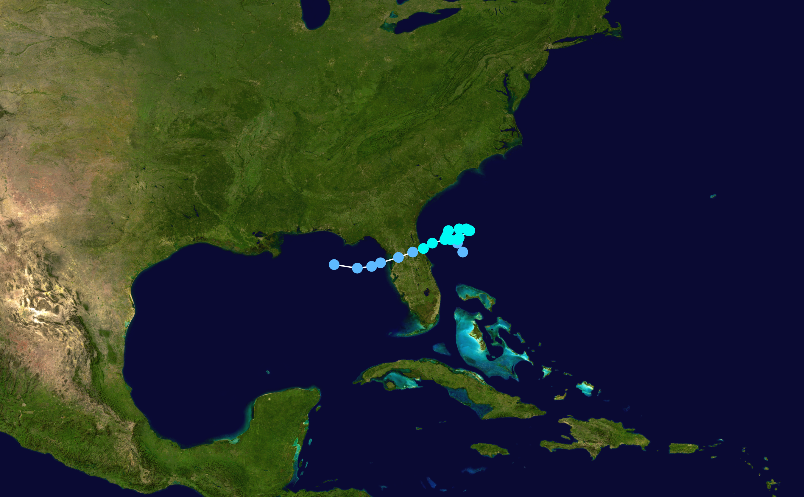 Track map of Tropical Storm Edouard of the 2002 Atlantic hurricane season. The points show the location of the storm at 6-hour intervals. The colour represents the storm's maximum sustained wind speeds as classified in the Saffir–Simpson scale (see below), and the shape of the data points represent the nature of the storm, according to the legend below. Saffir–Simpson scale Tropical depression≤38 mph≤62 km/h Category 3111–129 mph178–208 km/h Tropical storm39–73 mph63–118 km/h Category 4130–156 mph209–251 km/h Category 174–95 mph119–153 km/h Category 5≥157 mph≥252 km/h Category 296–110 mph154–177 km/h Unknown Storm type Tropical cyclone Subtropical cyclone Extratropical cyclone / Remnant low / Tropical disturbance / Monsoon depression